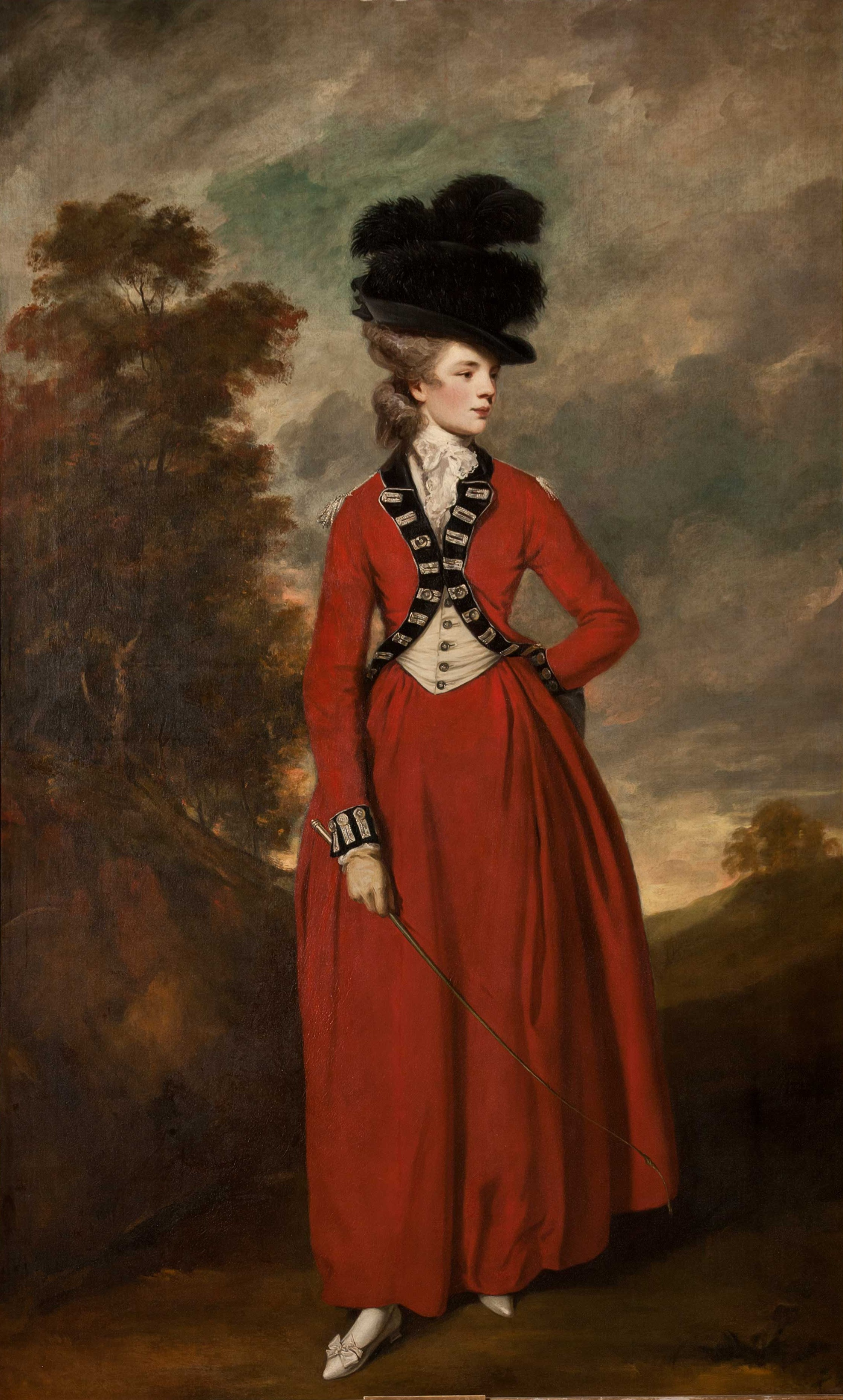 Lady Worsley wears a riding habit. Earl and Countess of Harewood, Harewood House, Leeds, Yorkshire, UK. The portrait hangs in the Cinnamon Drawing Room at Harewood House which is open to the public.